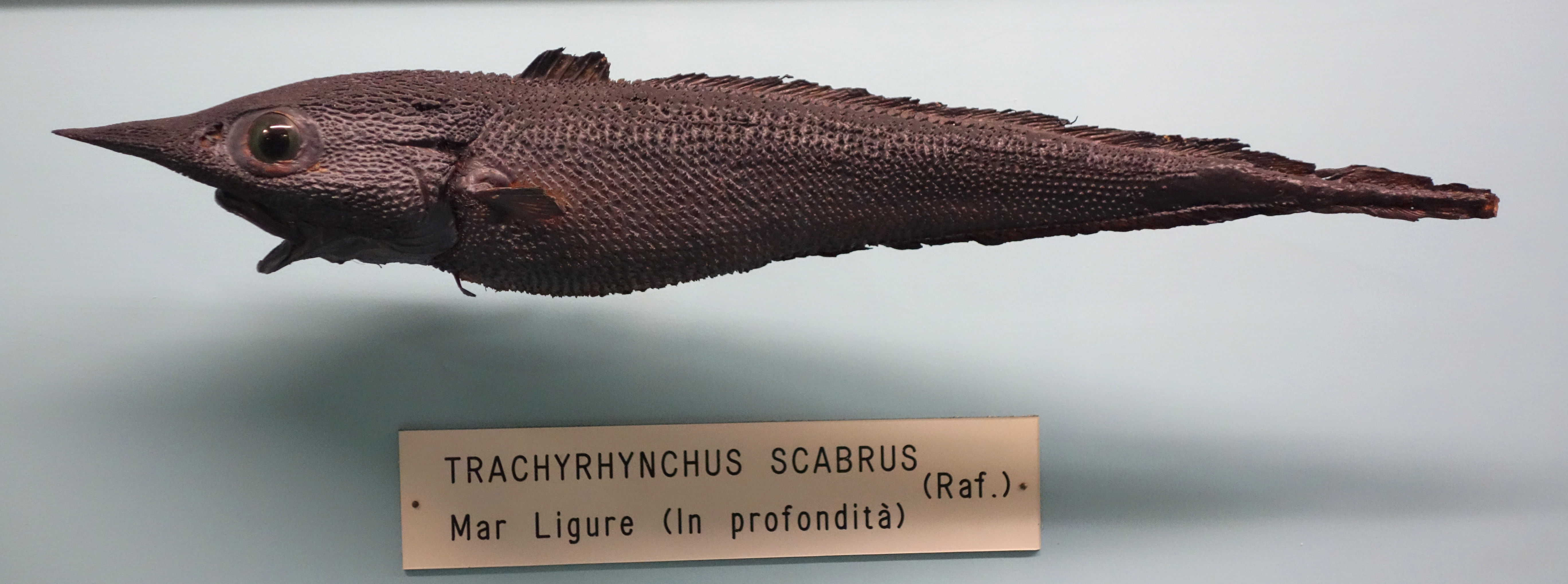 Exhibit in the Museo Civico di Storia Naturale di Genova, Via Brigata Liguria, 9, 16121, Genoa, Italy.